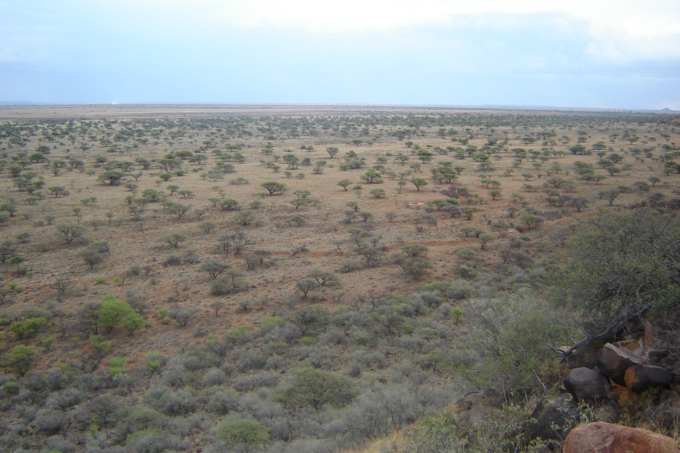 Photo of the hill at Magersfontein depicting the plain where the Battle of Magersfontein was fought. Remnants of the trenches can still be seen in the veld